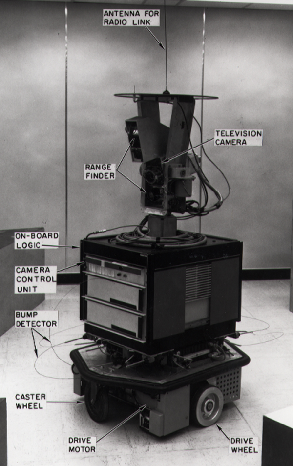 SRI's Shakey, the first mobile robot that could make decisions about how to move in its surroundings